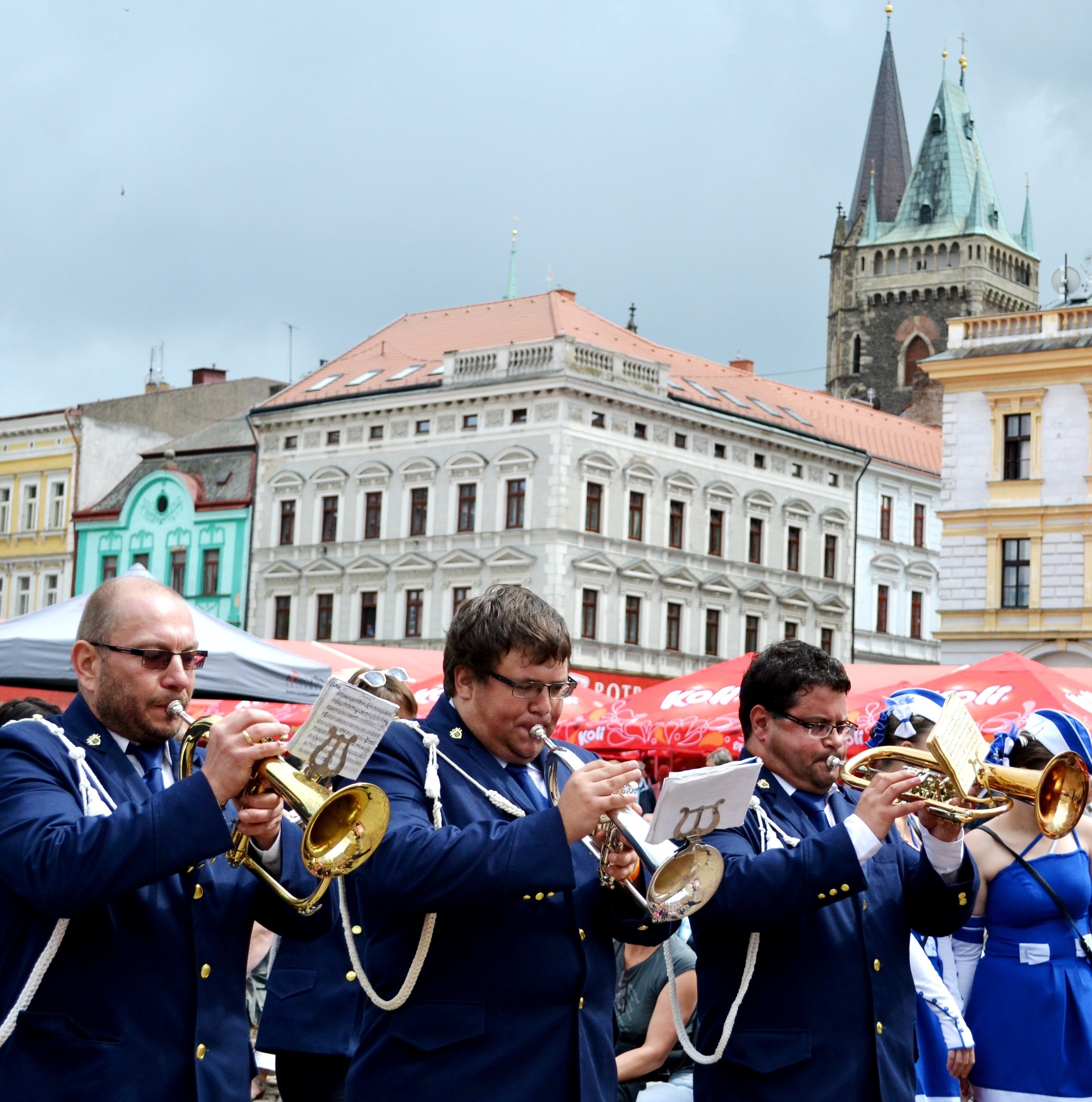 Kmochův Kolín 2014 - International music festival